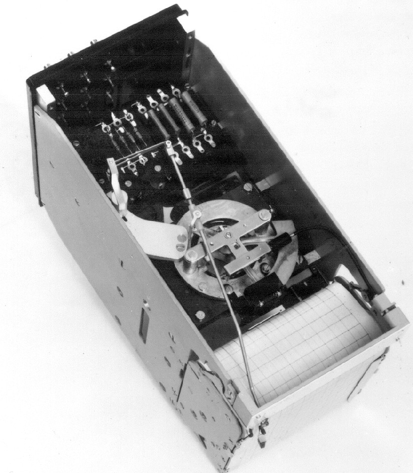 Linear writing instrument